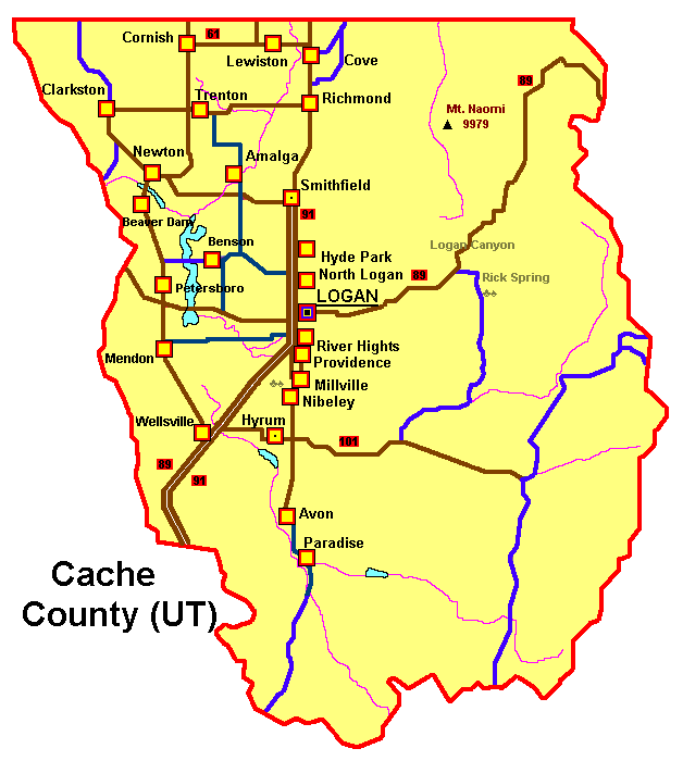 Cache County (UT) details, selfmade graphic by R.Blauert Dk4hb